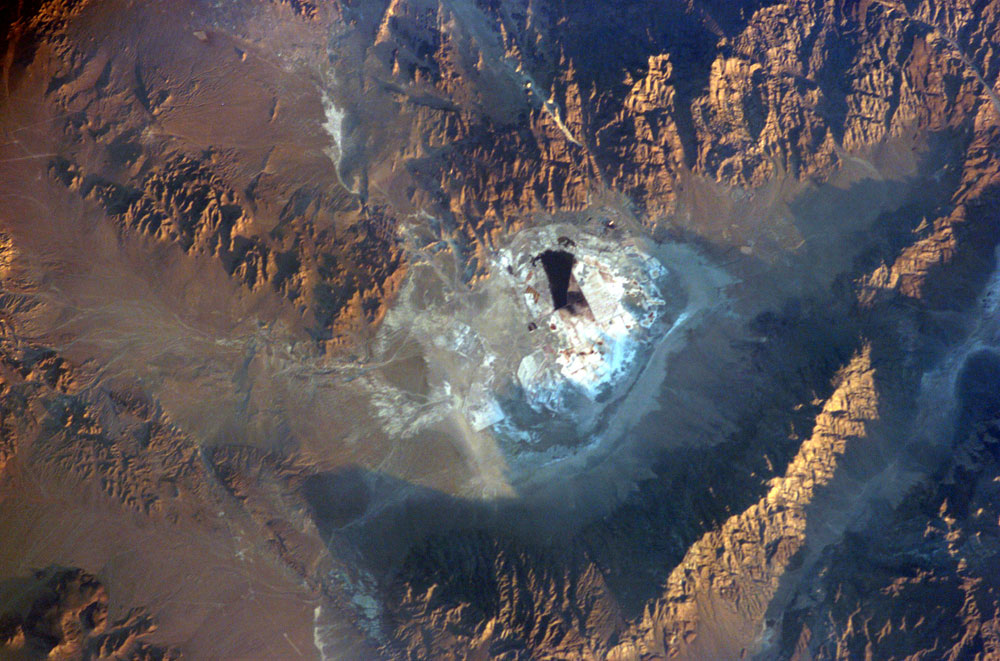 Astronaut photograph ISS011-E-9680 1 was acquired June 27, 2005, with a Kodak 760C digital camera with an 180 mm lens, and is provided by the ISS Crew Earth Observations experiment and the Image Science & Analysis Group, Johnson Space Center.